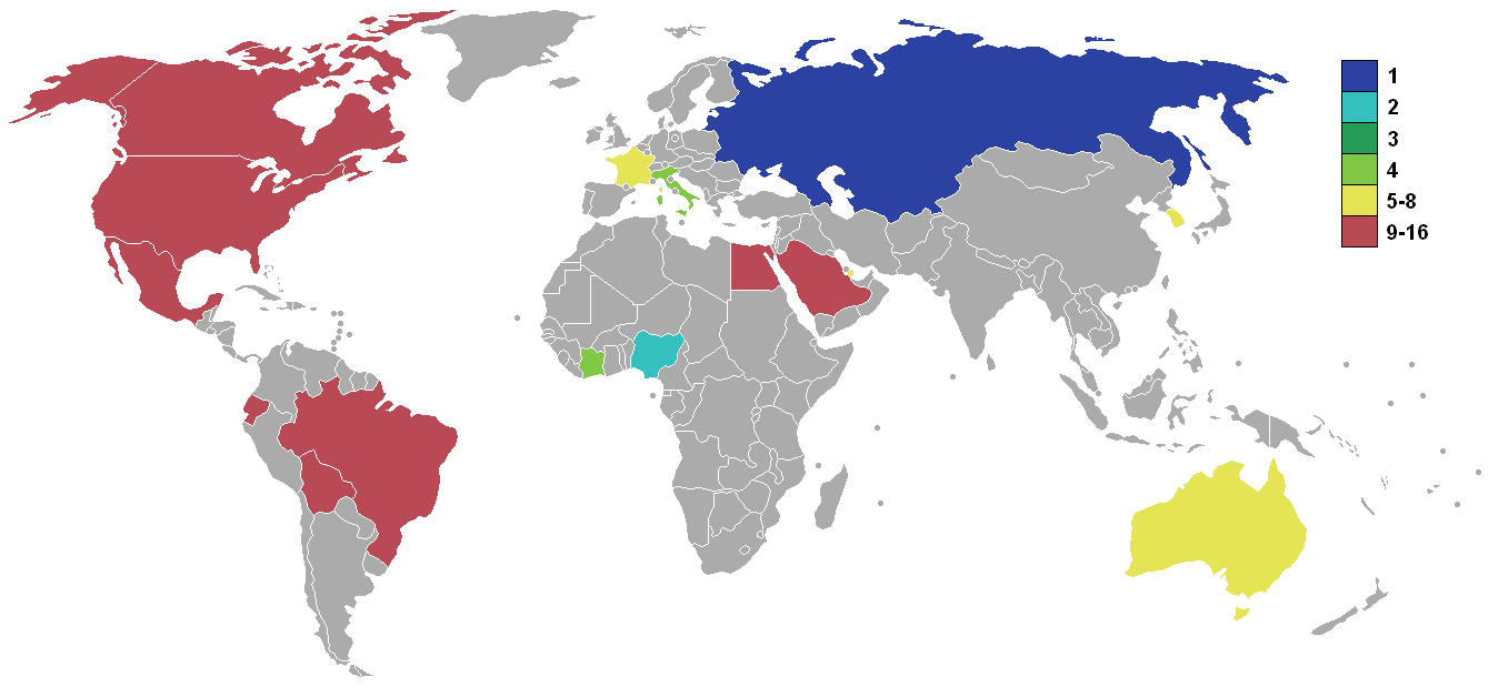 1987 FIFA U-16 World Championship